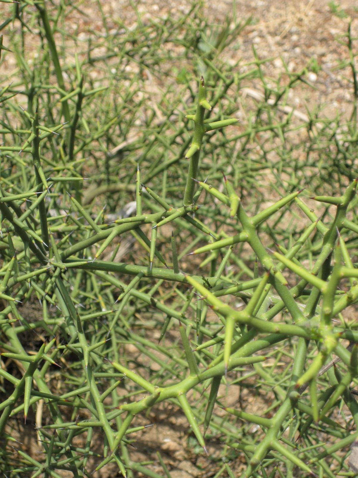 Photographed at Huntington Gardens (Los Angeles) in April